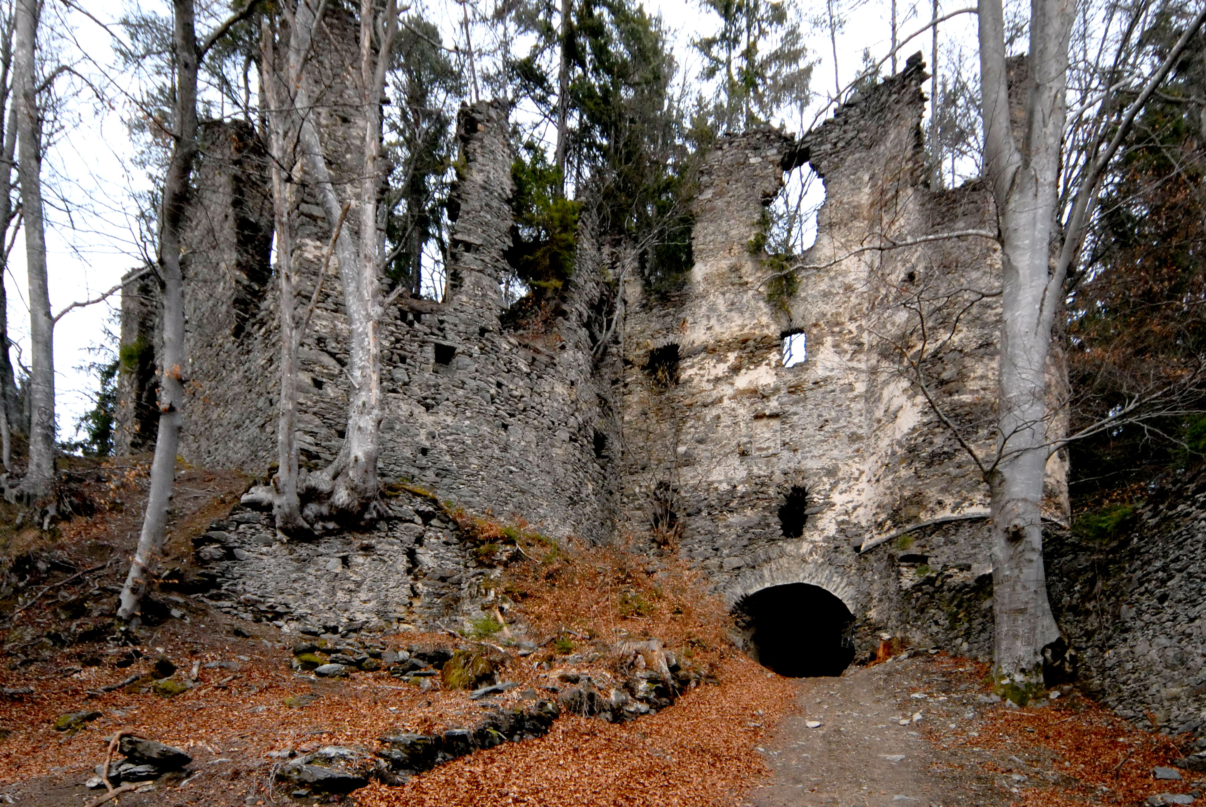 Ruin Eichelberg in the locality of Umberg, municipality Wernberg, district Villach Land, Carinthia, Austria